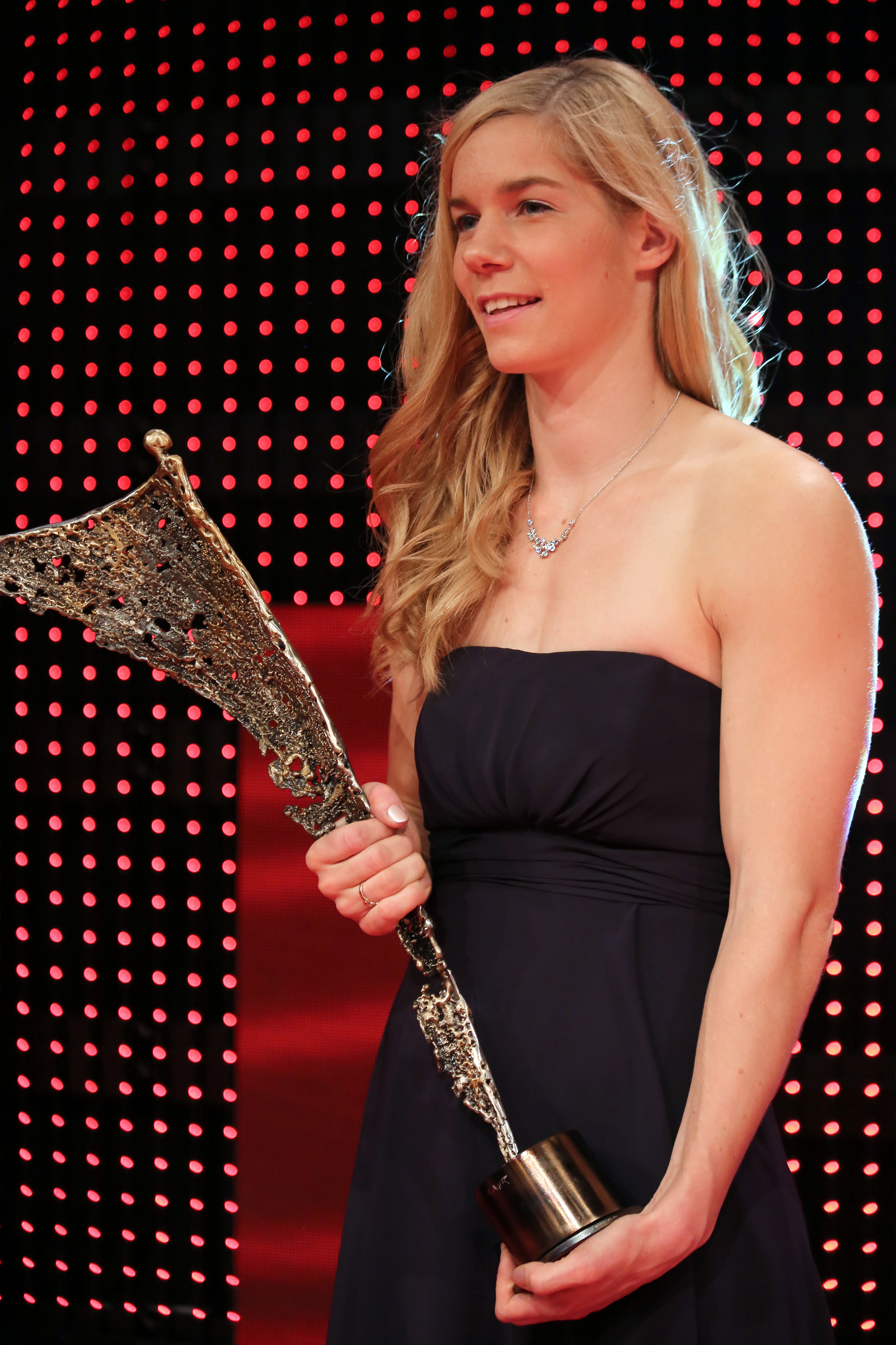 Beate Schrott: Newcomer of the Year at the award show for the Austrian Austrian Sportspersonalities of the year 2012.